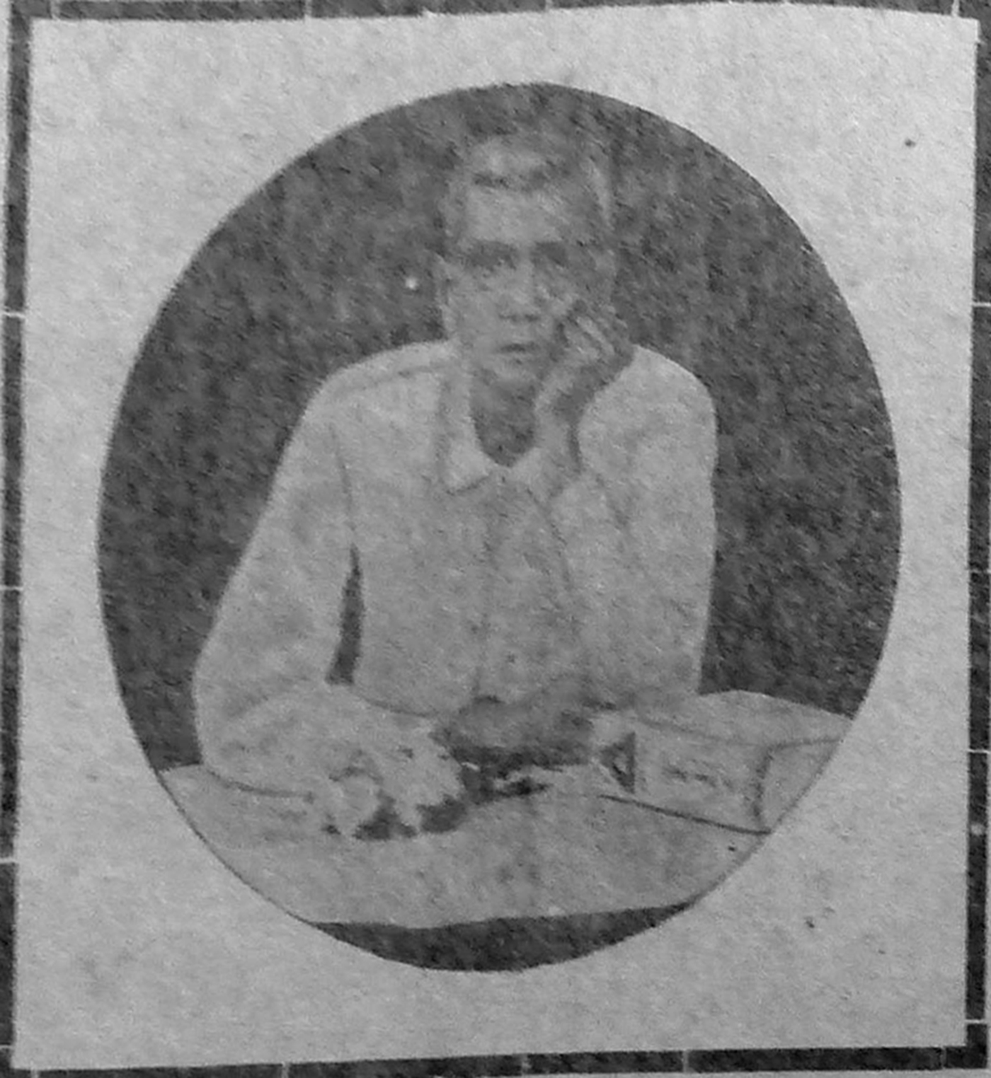 Portrait of Radhika Prasad Goswamy